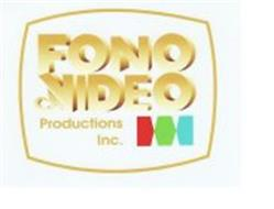 The Fonovideo Productions logo until 2008.